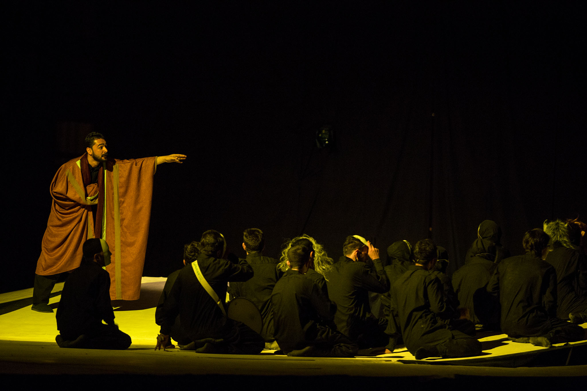 Theatre or theater is a collaborative form of fine art that uses live performers, typically actors or actresses, to present the experience of a real or imagined event before a live audience in a specific place, often a stage. Photographer: Mostafa Meraji location: Iran- Qom City Director: Seyyed Javad Taheri Actor or actress